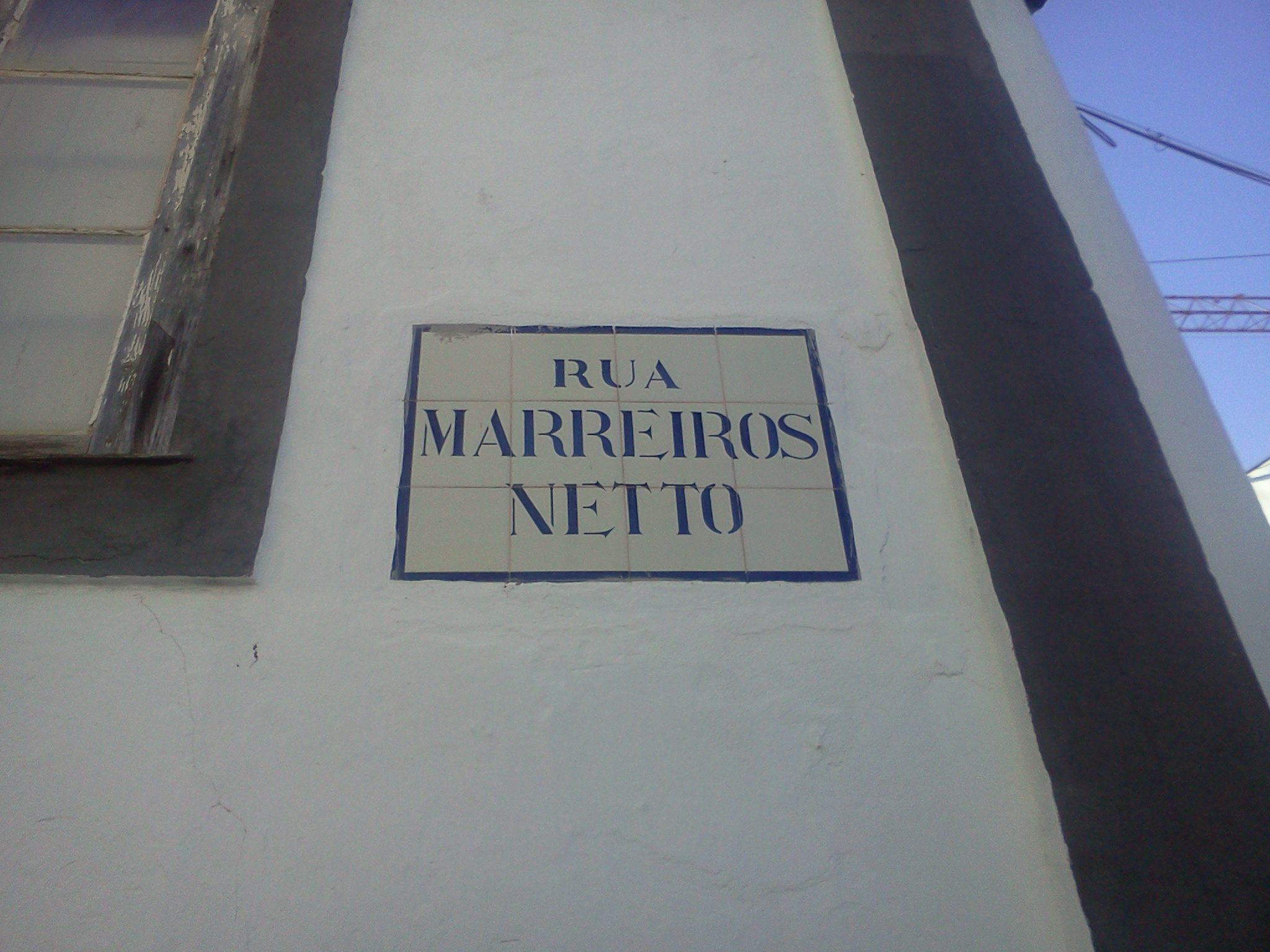 Street sign of Rua Marreiros Netto, in the city of Lagos, in southern Portugal.